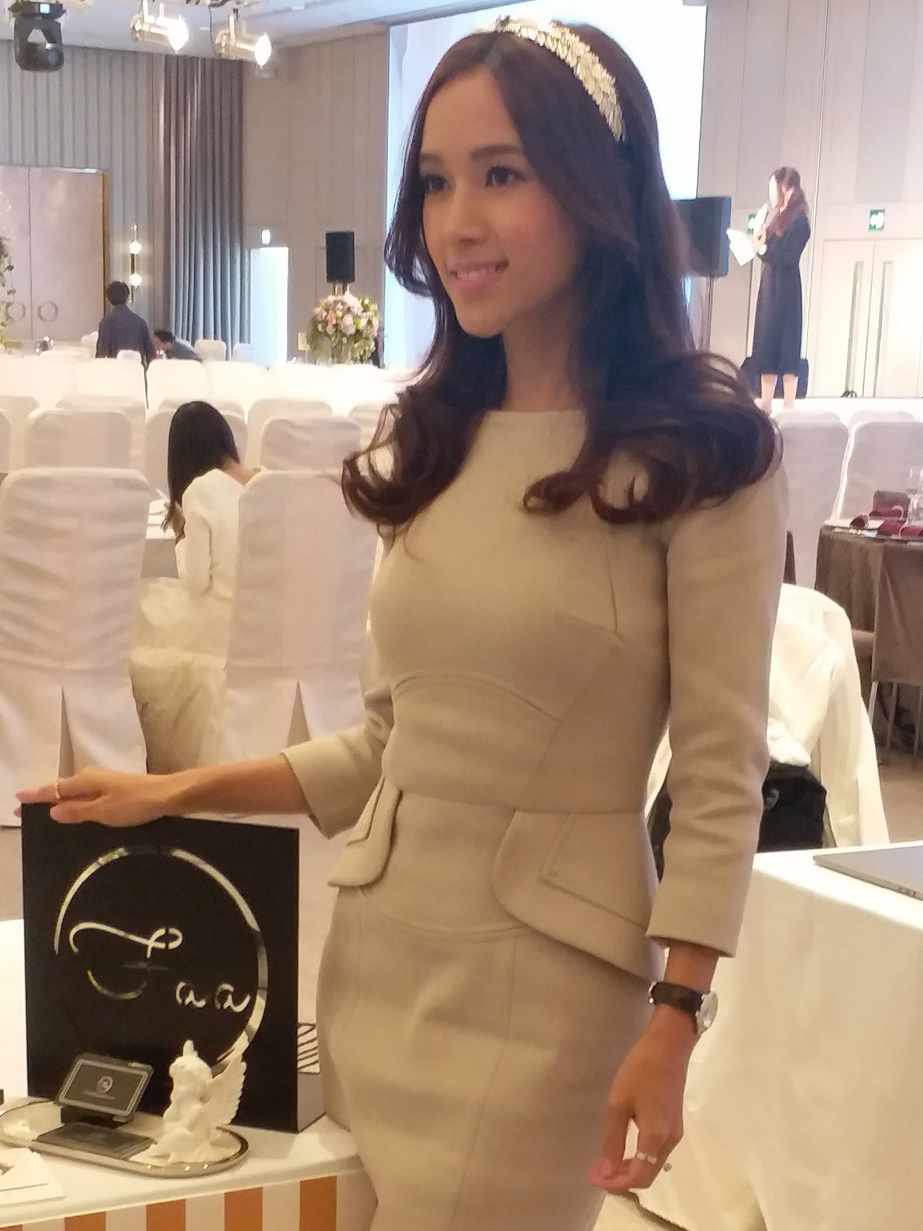 Kelly Fu